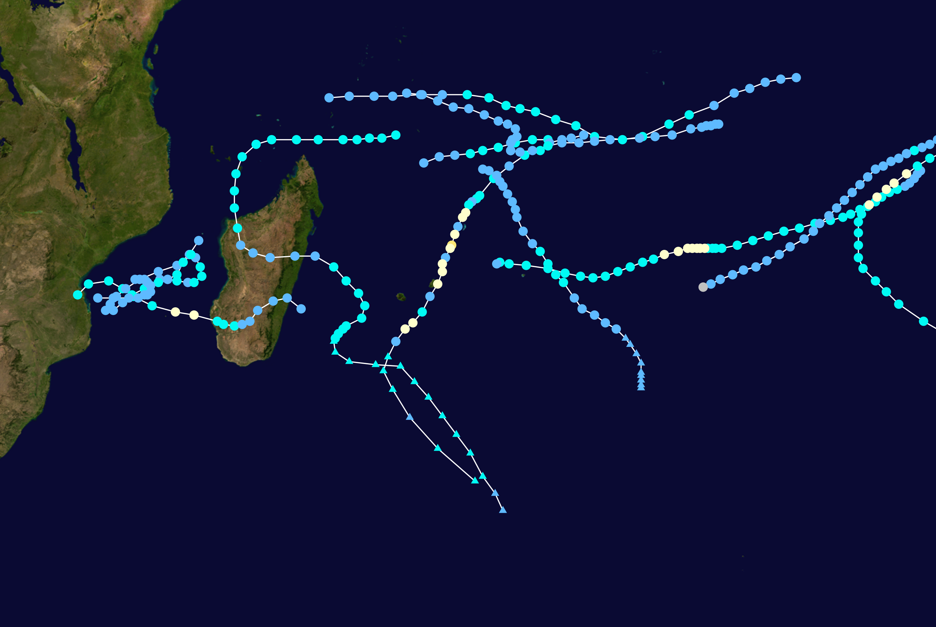 This map shows the tracks of all tropical cyclones in the 1966-67 South-West Indian Ocean cyclone season. The points show the location of each storm at 6-hour intervals. The colour represents the storm's maximum sustained wind speeds as classified in the Saffir-Simpson Hurricane Scale (see below), and the shape of the data points represent the type of the storm. Saffir–Simpson scale Tropical depression≤38 mph≤62 km/h Category 3111–129 mph178–208 km/h Tropical storm39–73 mph63–118 km/h Category 4130–156 mph209–251 km/h Category 174–95 mph119–153 km/h Category 5≥157 mph≥252 km/h Category 296–110 mph154–177 km/h Unknown Storm typeTropical cycloneSubtropical cycloneExtratropical cyclone / Remnant low / Tropical disturbance